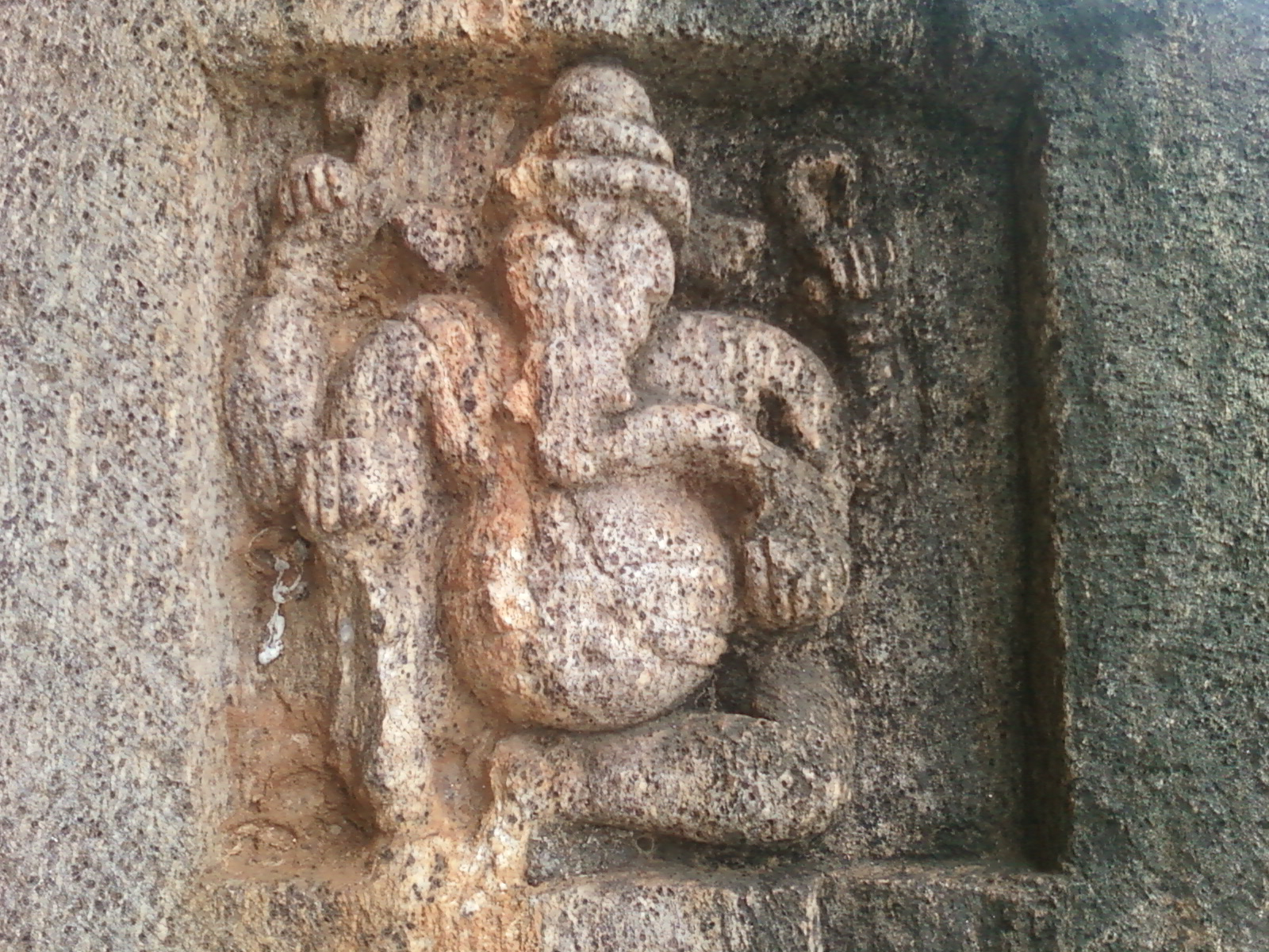 Stone carved relief of Ganesh on a pillar at Dharalingeshwara temple of visakhapatnam district, Andhra Pradesh